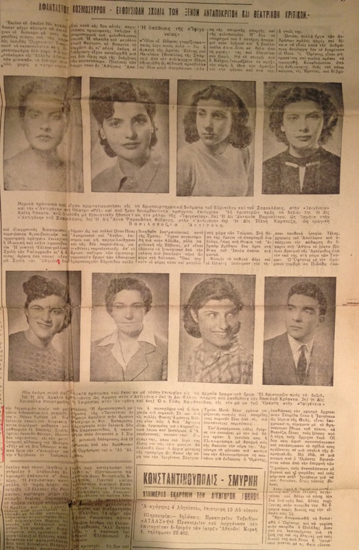 1951, "Antigone" and "Iphigenia", directed by Thanos Traga, "Kalogreion Lyceum" at REX Theater. Tzeni Karezi (1st above right)